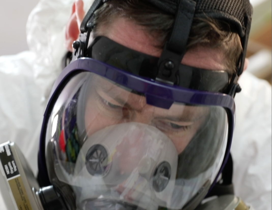 Thumbnails from the short film made for the Exhibition Signs of Civilisation at Nanda Hobbs Contemporary April 2018